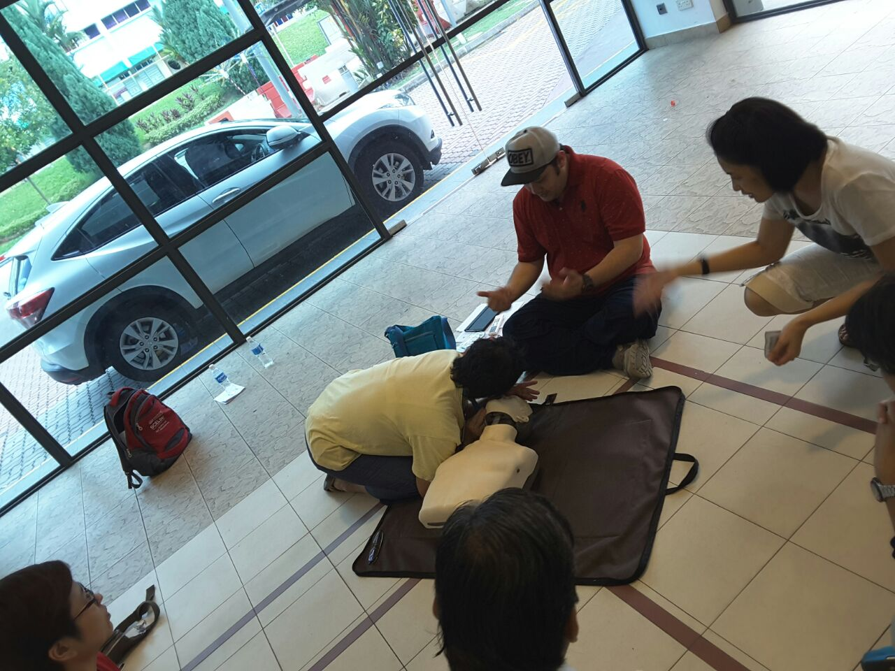 First Aid Training in Woodlands, Singapore.